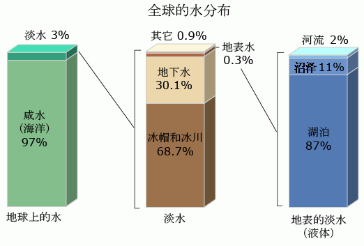 Earth where distribution